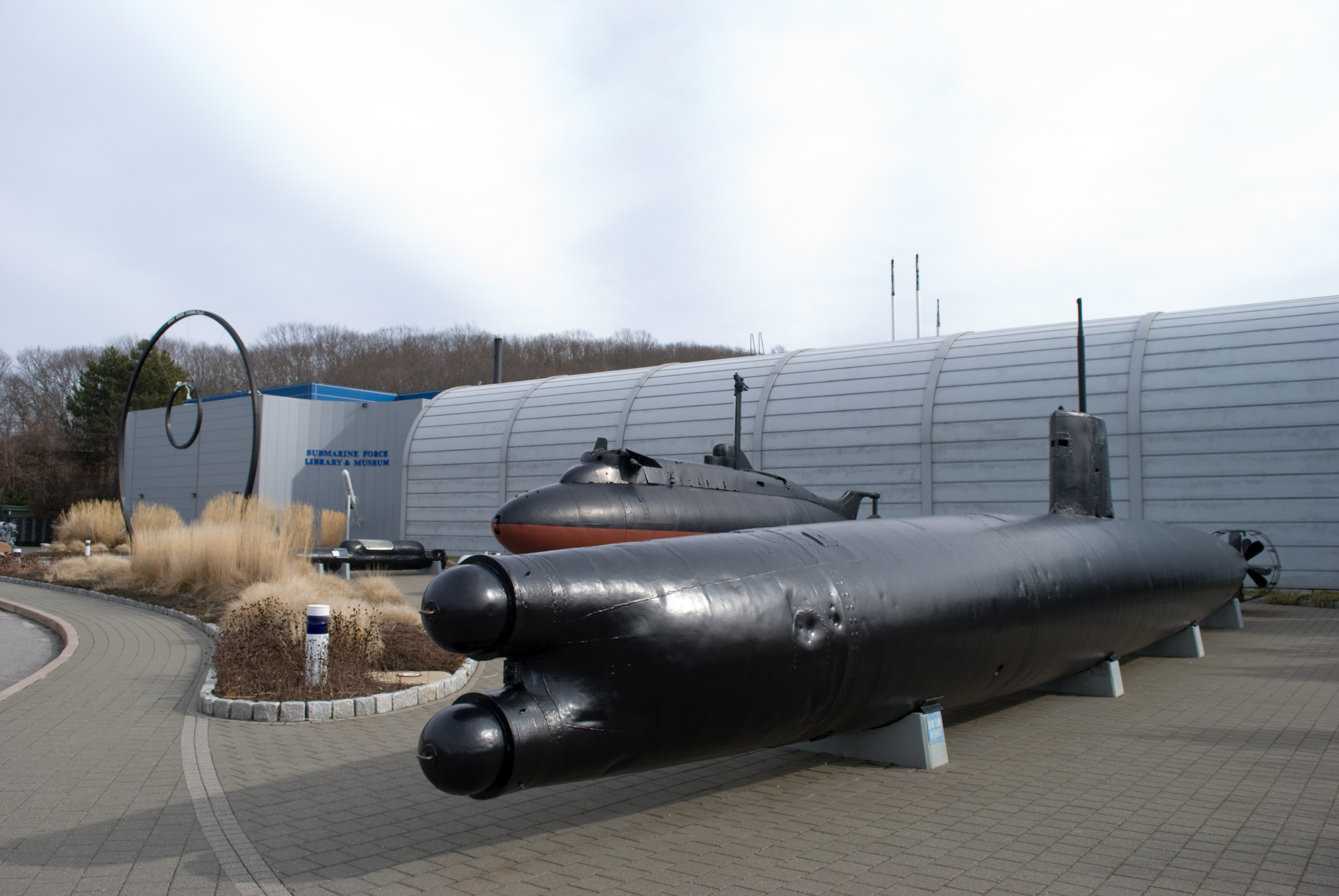 Bow view of Japanese Ko-hyoteki class submarine at the U.S. Navy Submarine Force Museum and Library, Groton CT.